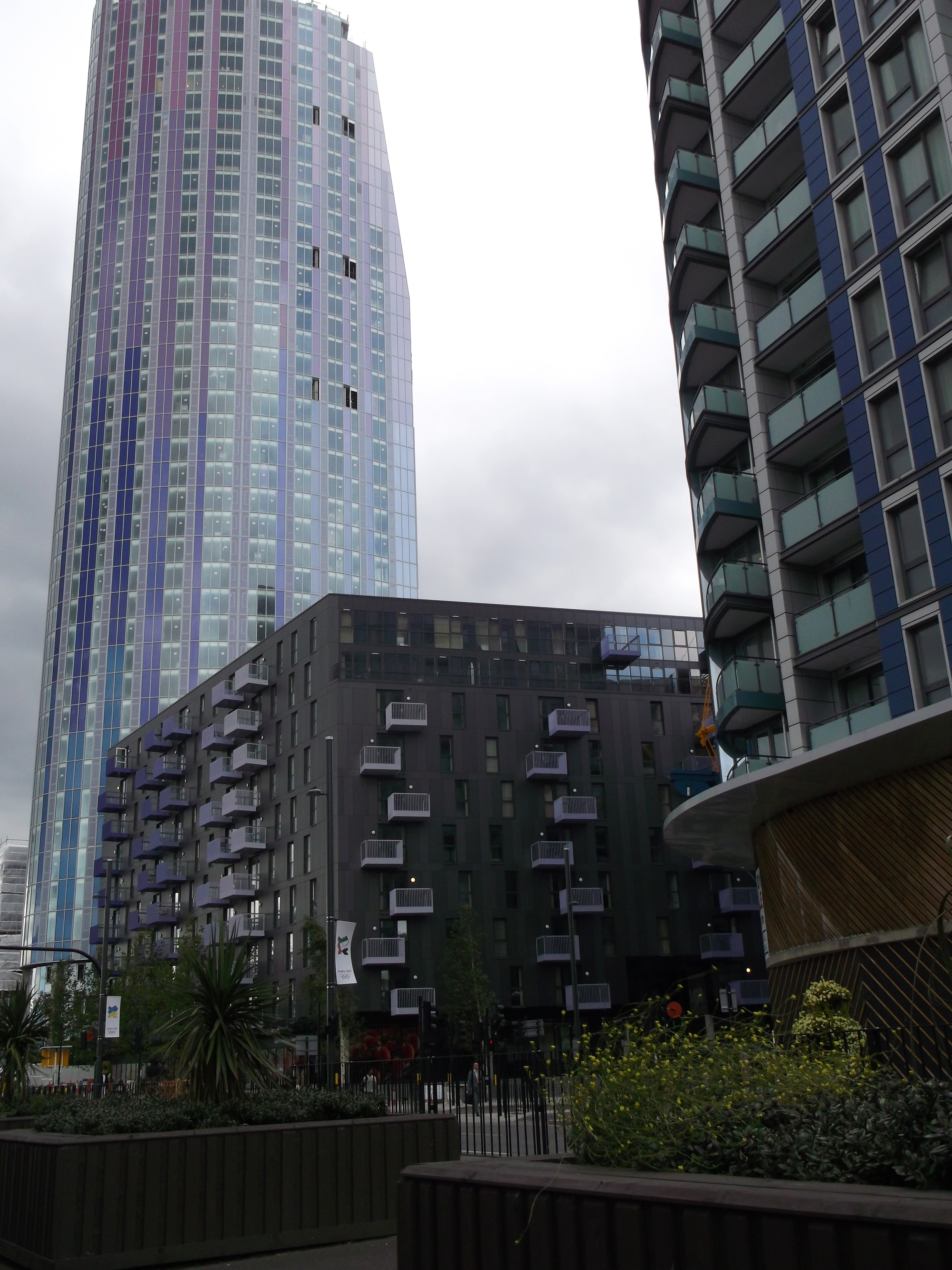 Housing, Stratford. The tall building is 150 High Street Stratford